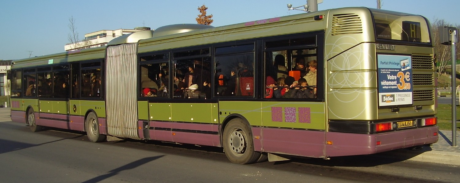 People into a bus on a well-charged bus line in Rheims France